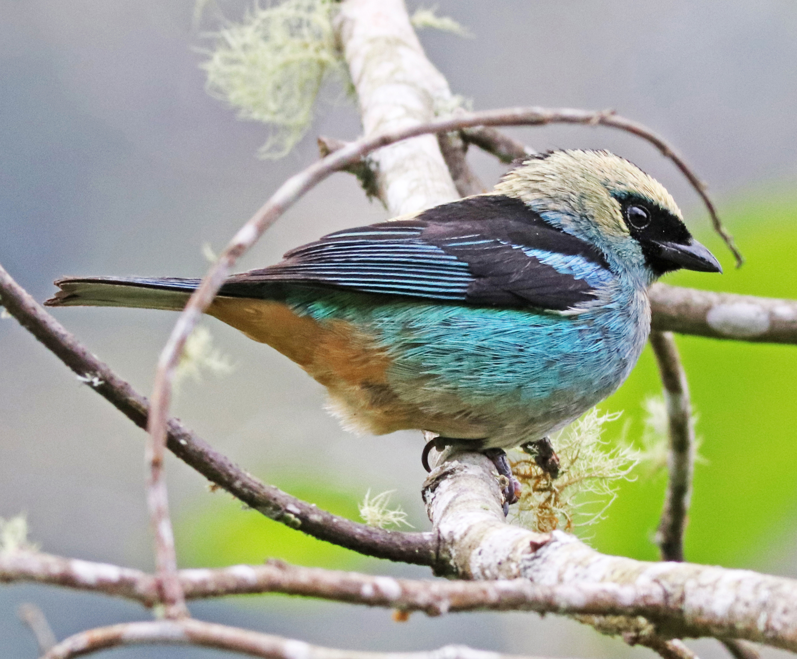 Metallic-green Tanager resting on a branch at San Jorge Eco-lodge Tandayapa, Ecuador